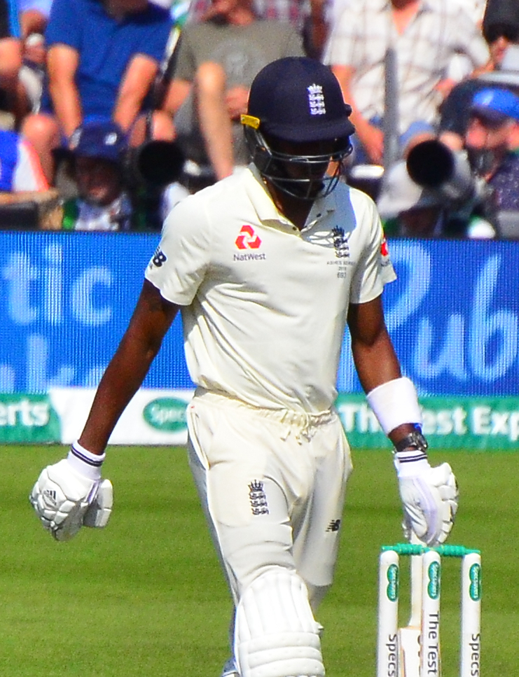 Australia captain / wicketkeeper Tim Paine and spin bowler Nathan Lyon of Australia discuss tactics as Jofra Archer walks to the wicket after the dismissal of Chris Woakes on Day 4 of the 3rd Test of the 2019 Ashes at Headingley